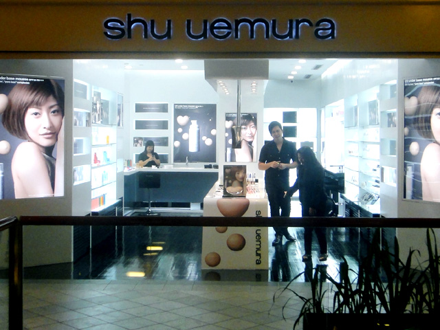 Shu Uemura Store at Rockwell Mall, Makati City, Philippines